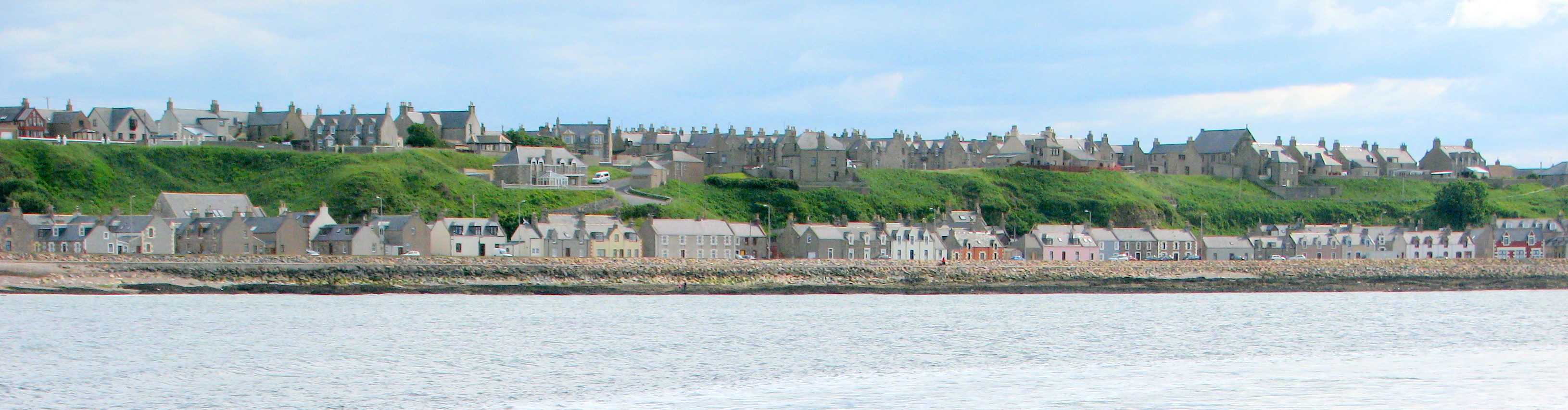 Portessie from off Strathlene